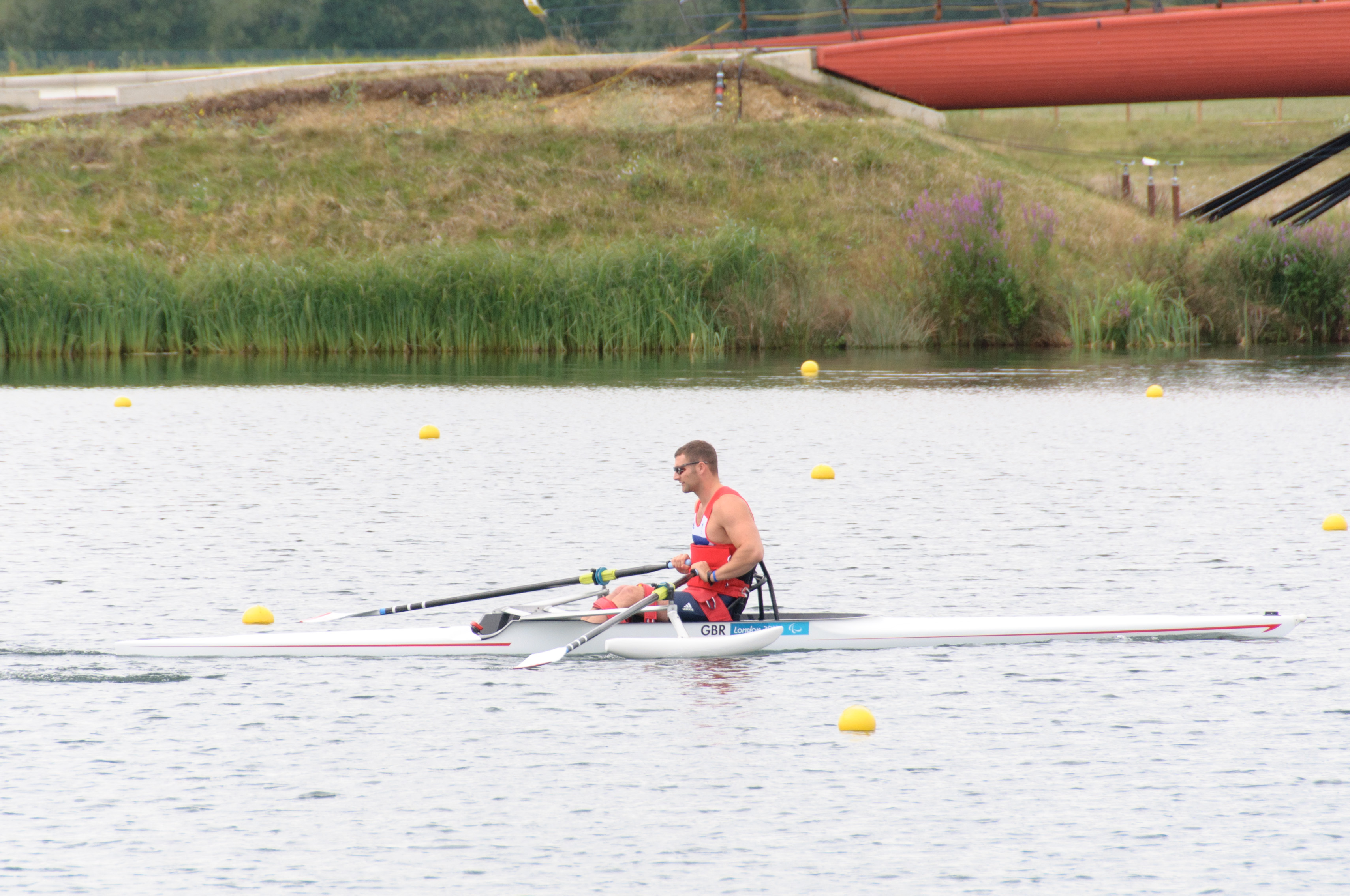 Paralympic Rowing, 1 September 2012, Eton Dorney. Repechage Day.